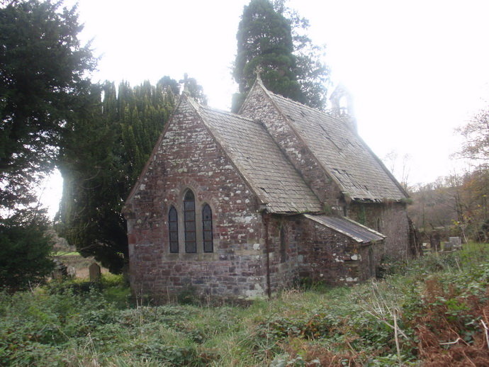 The isolated Henllan Amgoed Church is dedicated to Dewi Sant (St David's)and was also known in former times as Llanddewi Henllan (The Old Church of Dewi). Amgoed (Around the Wood) is the name of the old commote. A church has stood on this spot since the c13 at least. Circa 1865 the old church was demolished and a new place of worship built in its place. Due to it being a small, sparsely populated parish the congregation had dwindled over the years and it was forced to close, sadly, sometime during the early years of this decade. In 2010 the church was sold. What strikes a person when visiting the church is the relatively few gravestones that can be seen within its large churchyard.